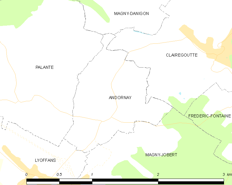 Map of French municipality